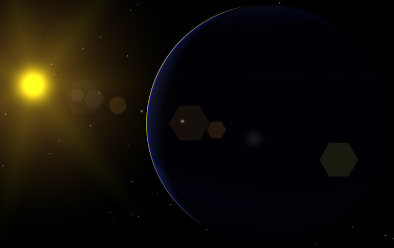 An artist's rendition of Tyche.